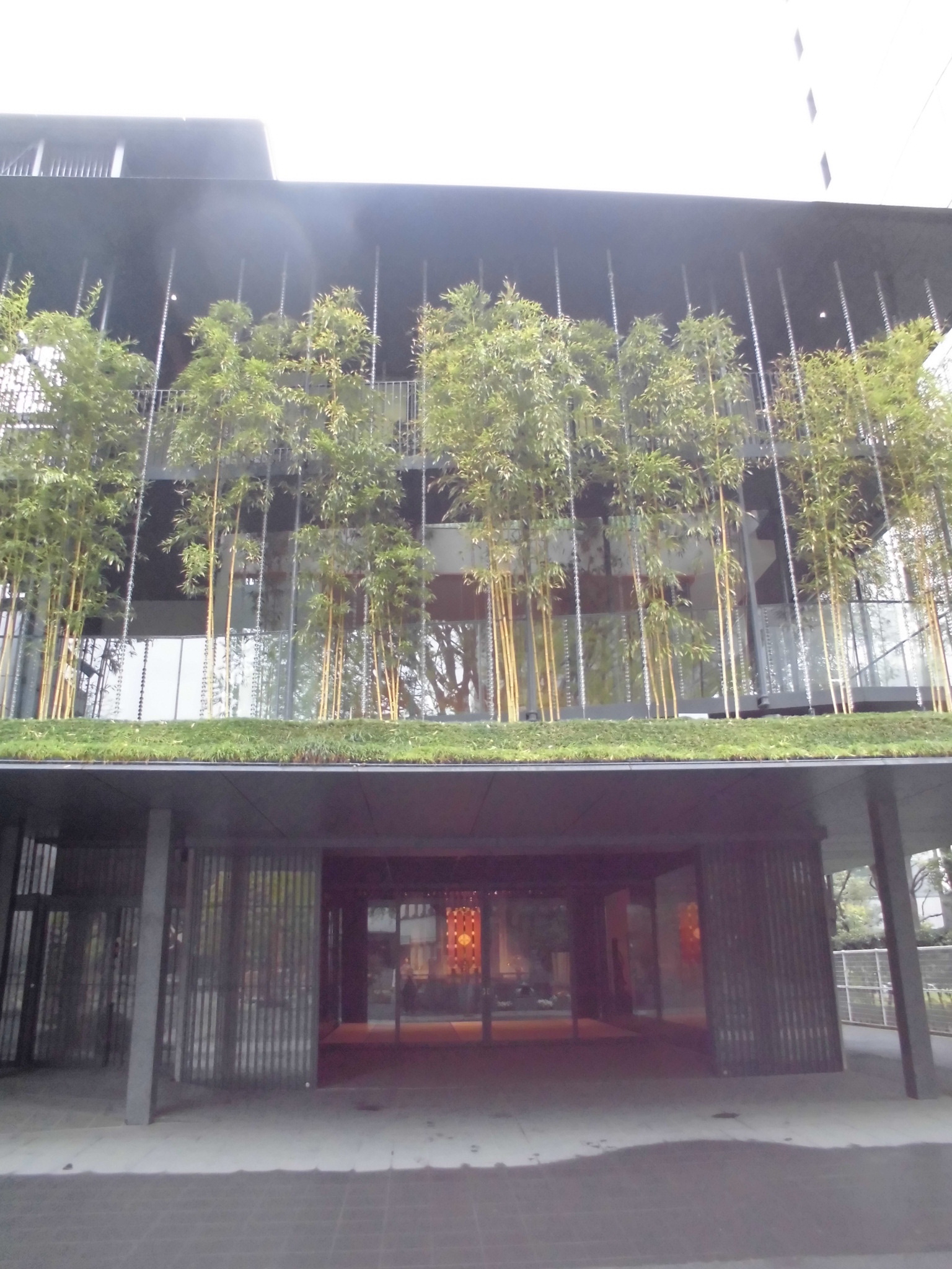 Nenbutsu-Hall of the Ekō-in Temple in Tokyo